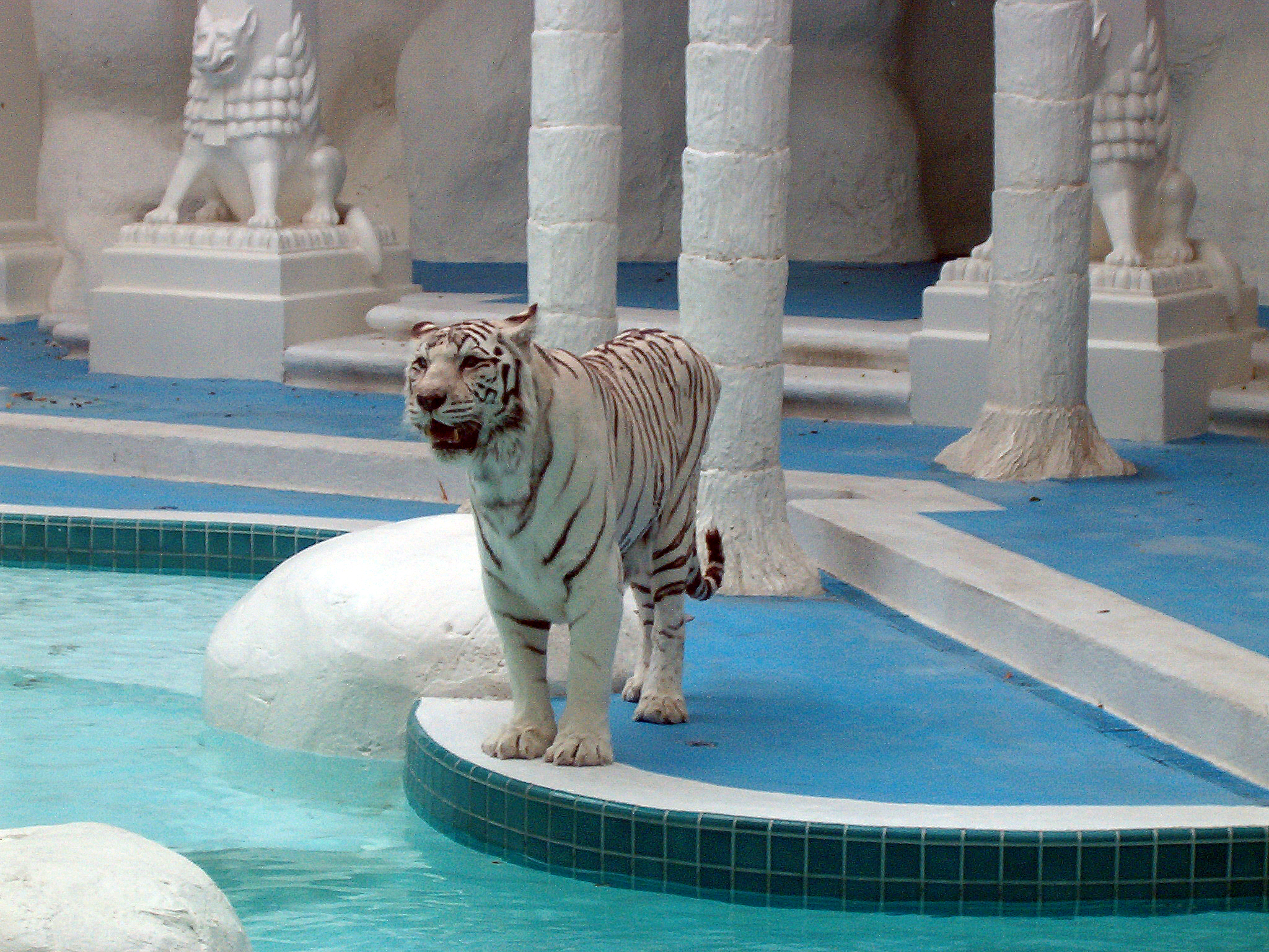 A white tiger at The Mirage hotel habitat in Las Vegas.